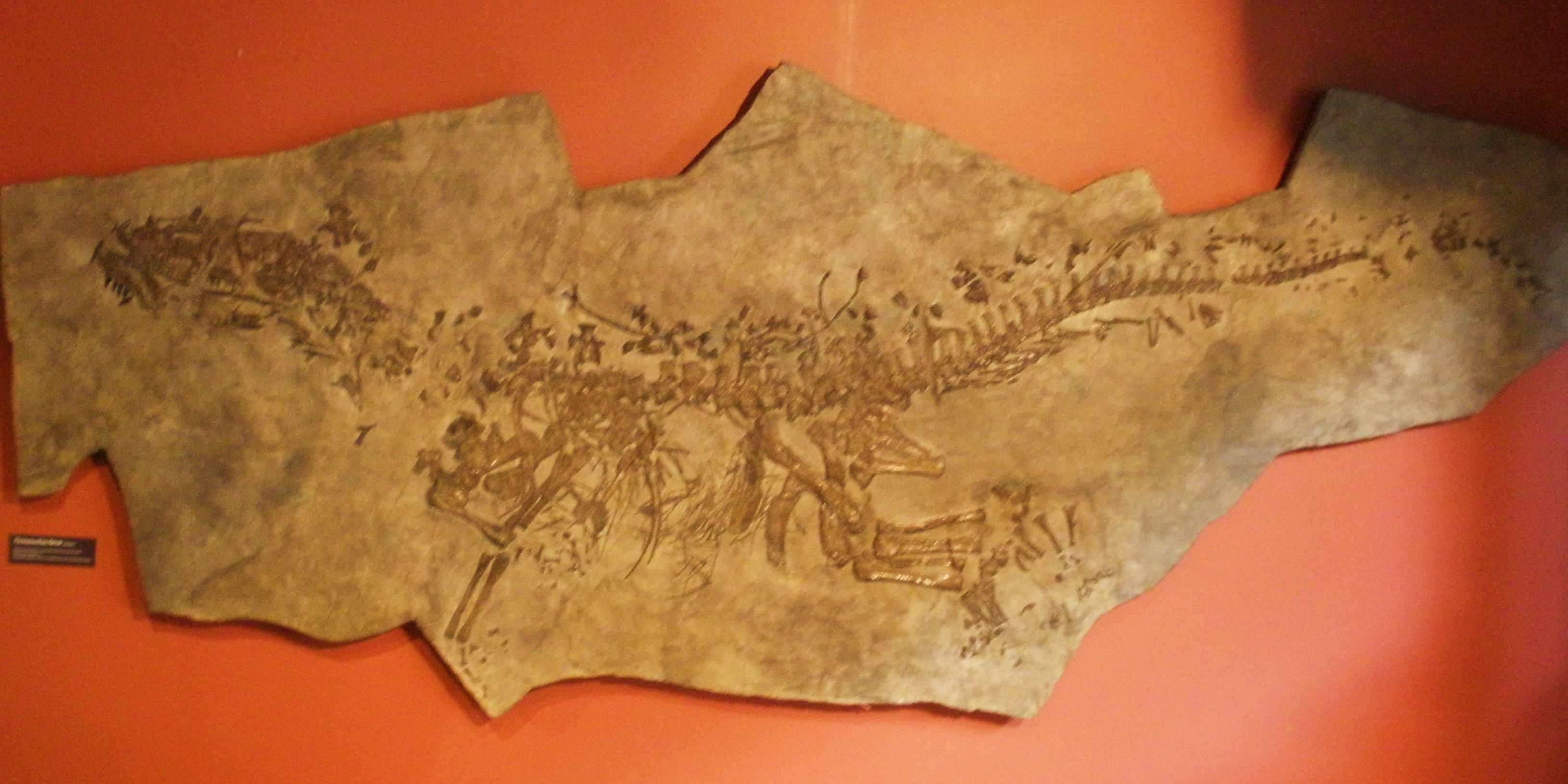 Facsimile of the holotype specimen of Ticinosuchus ferox. Took the photo at the Dinosaur Museum Aathal. The original is in the PIMUZ (Paläontologisches Institut und Museum der Universität Zurich, Switzerland).